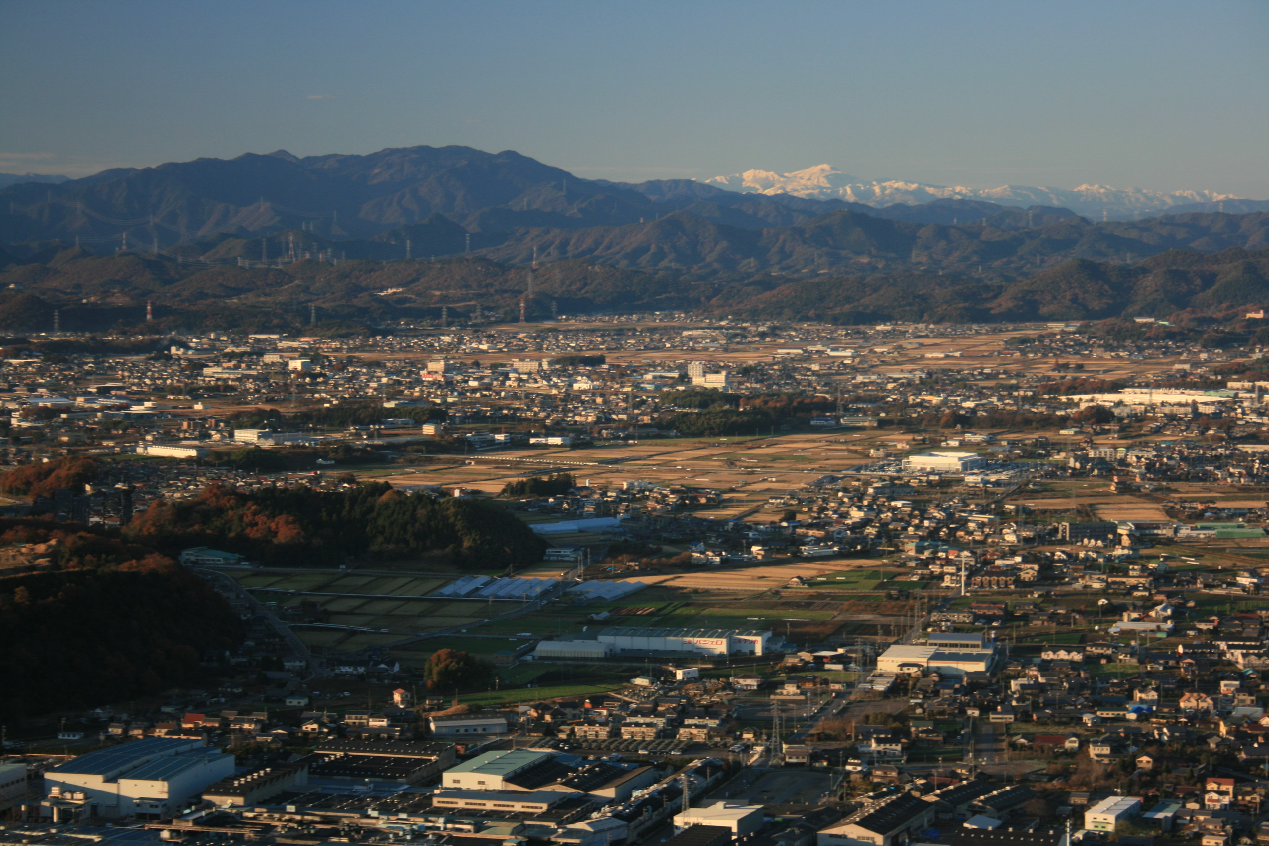 Mount Koga and Mount Haku from Mount Hatobuki